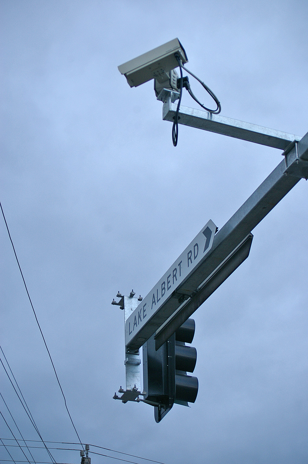 Traffic camera on a traffic light pole at the Lake Albert Road and Sturt Highway intersection in Wagga Wagga.